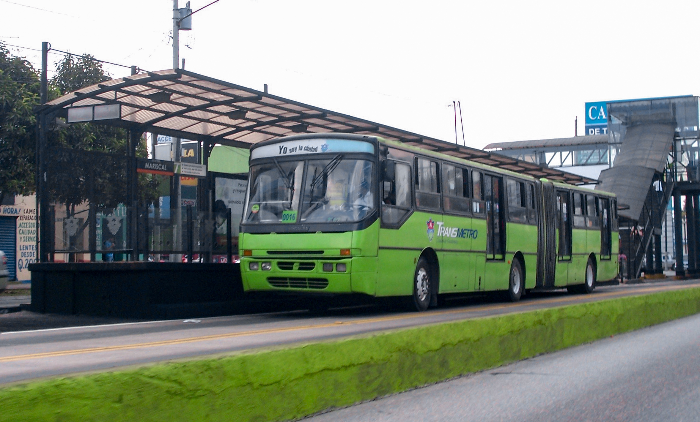 Transmetro